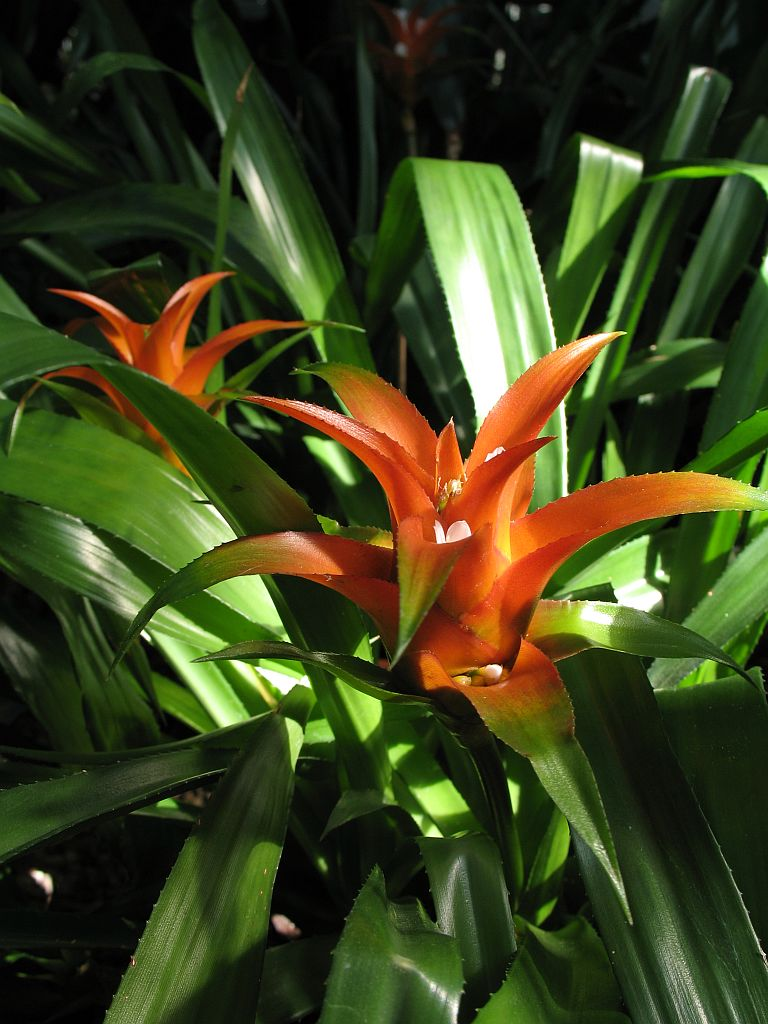 Nidularium billbergioides in cultivation at the Botanical Garden of Heidelberg, Germany.